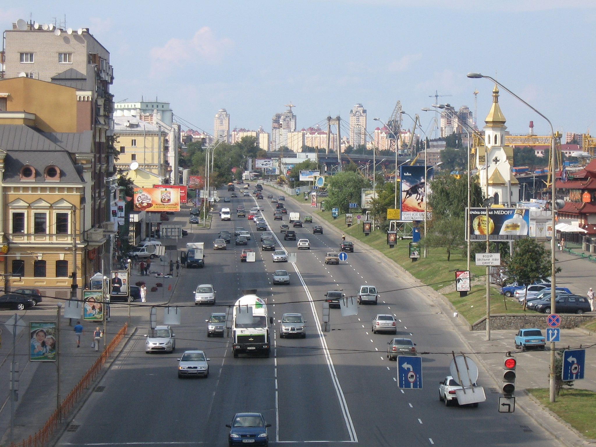 View of Naberezhno-Khreshchatytska Street in Kyiv